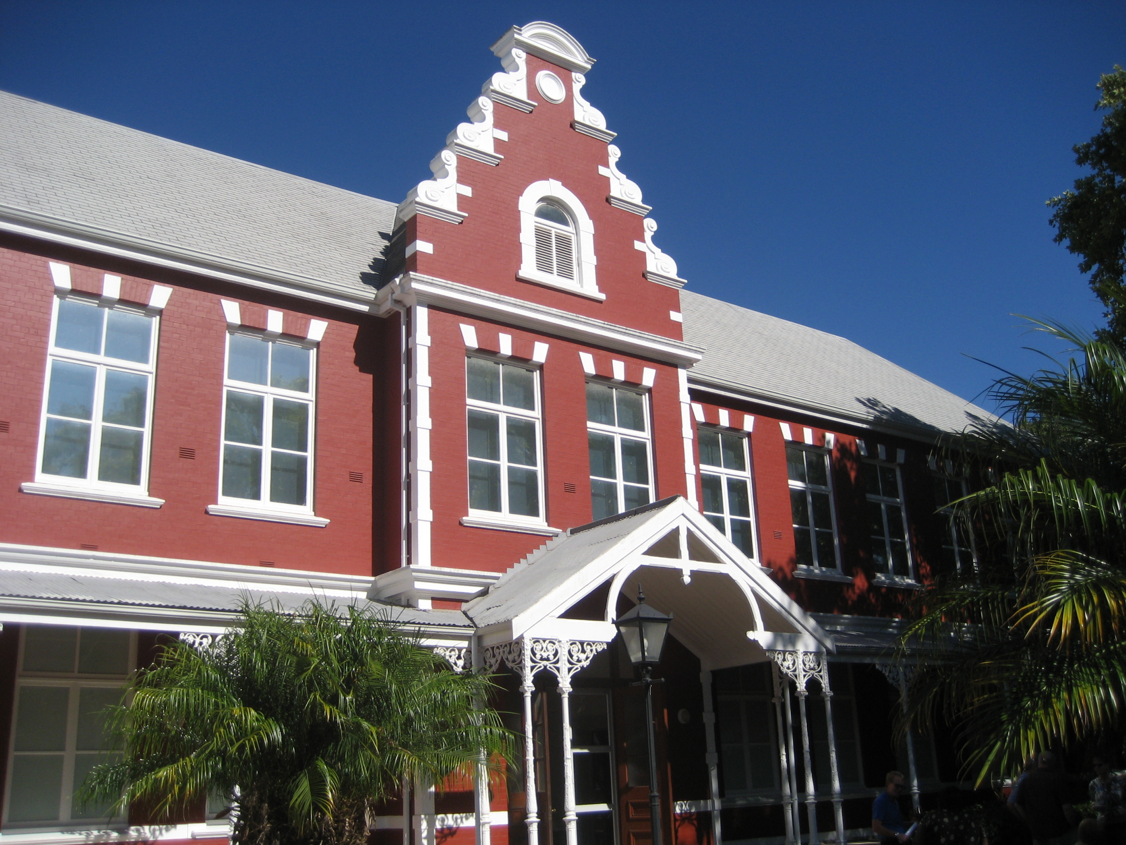 Stellenbosch Sasol Art Museum (Eben Dönges Centre) (garden side), Ryneveldstreet 52, Stellenbosch 7600 (South Africa)